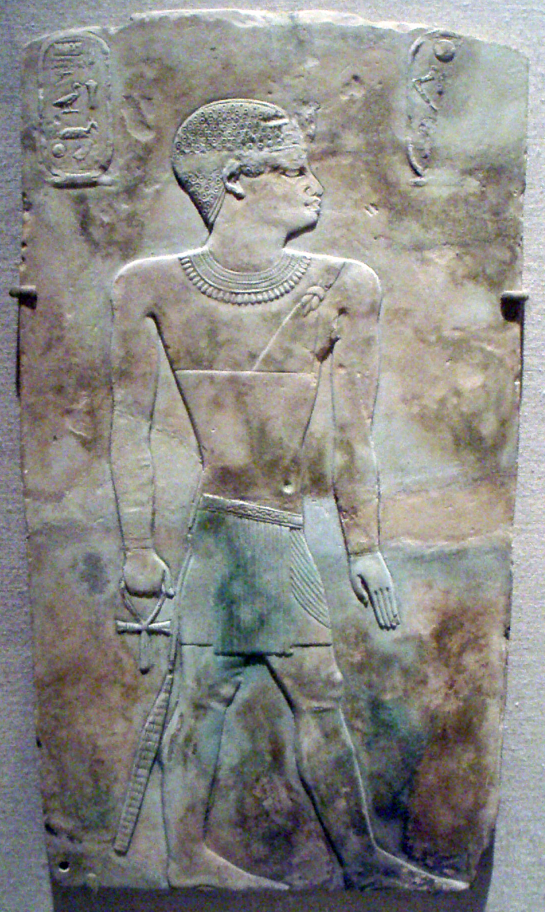 Relief of Iuput II. Third intermediate period, circa 754-720/715 B.C.